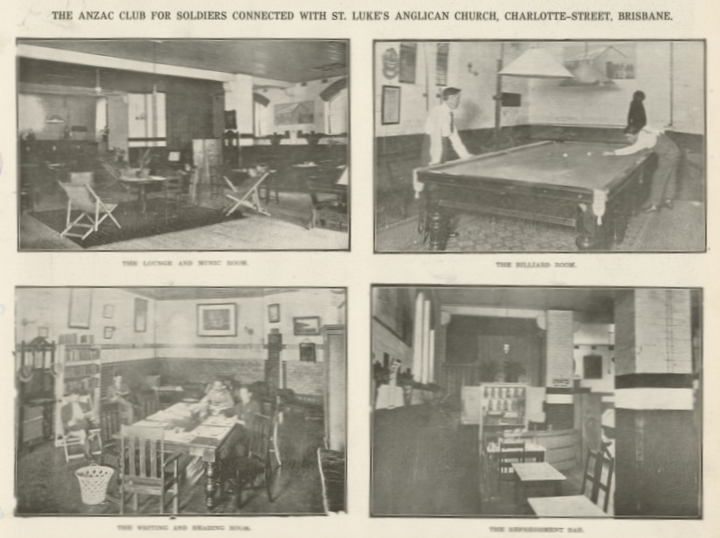 The Anzac Club at St Luke's Church of England, Charlotte Street Brisbane Caption: The lounge and music room. Caption: The billiard room. Caption: The writing and reading room. Caption: The refreshment bar.